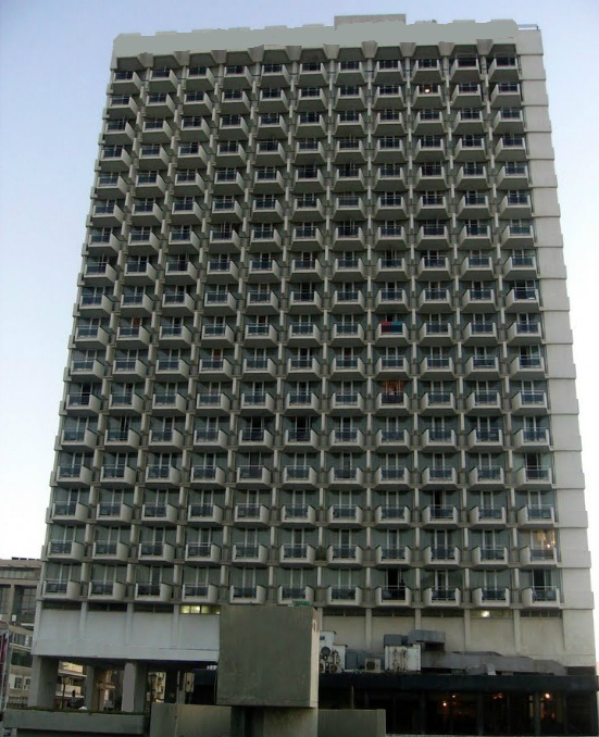 The building of Herods hotel Tel Aviv